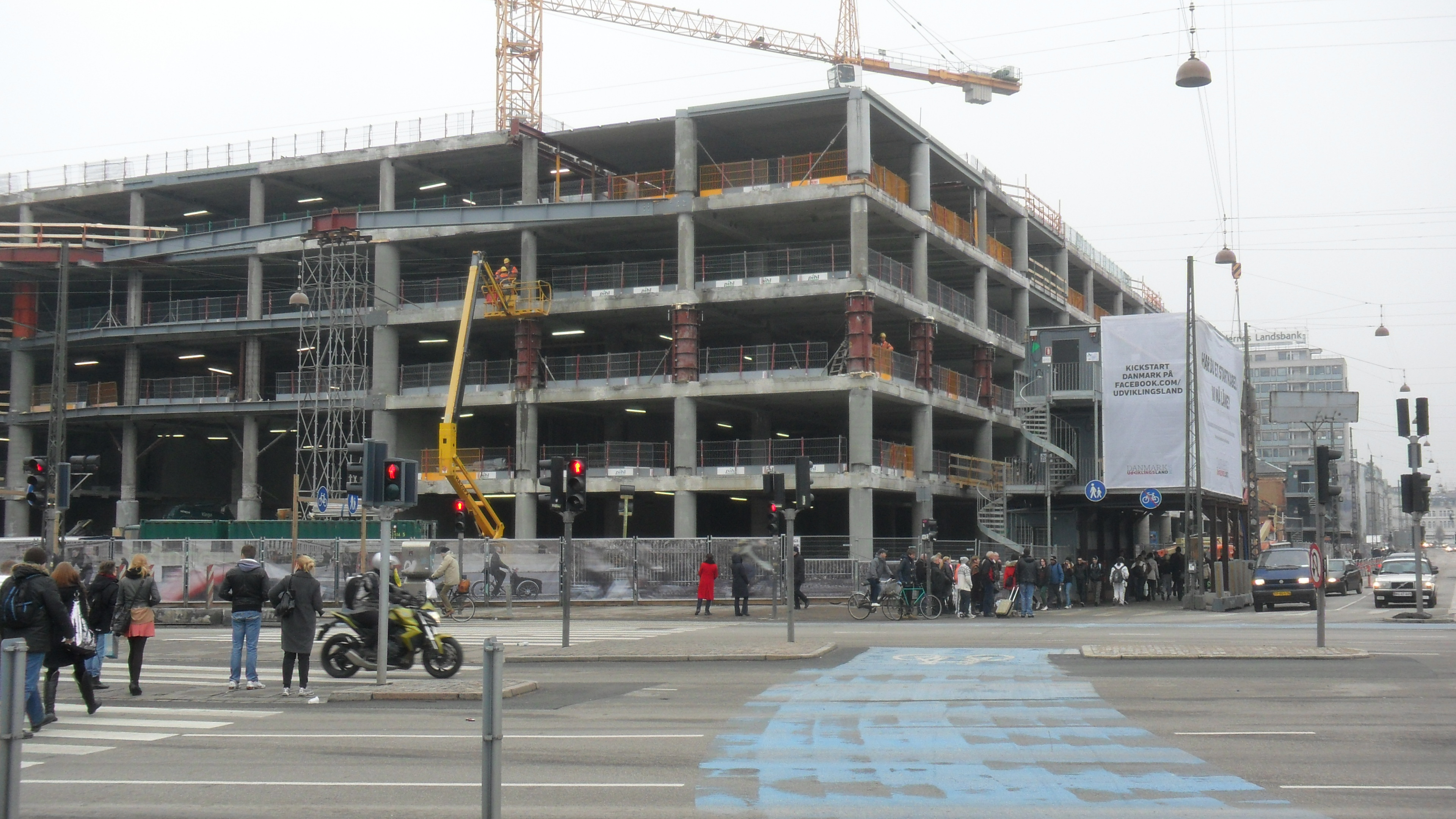 Industriens Hus under renovation, Copenhagen, Denmark, 2011